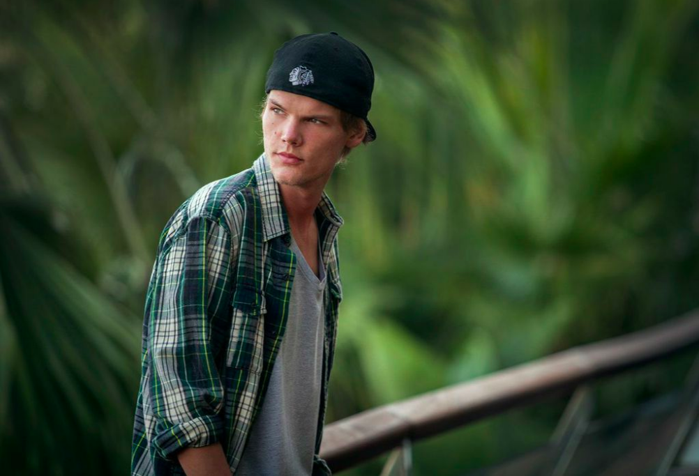 The Swedish DJ Avicii.